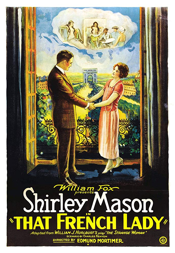 This is a poster for the 1924 American silent romantic drama film That French Lady.